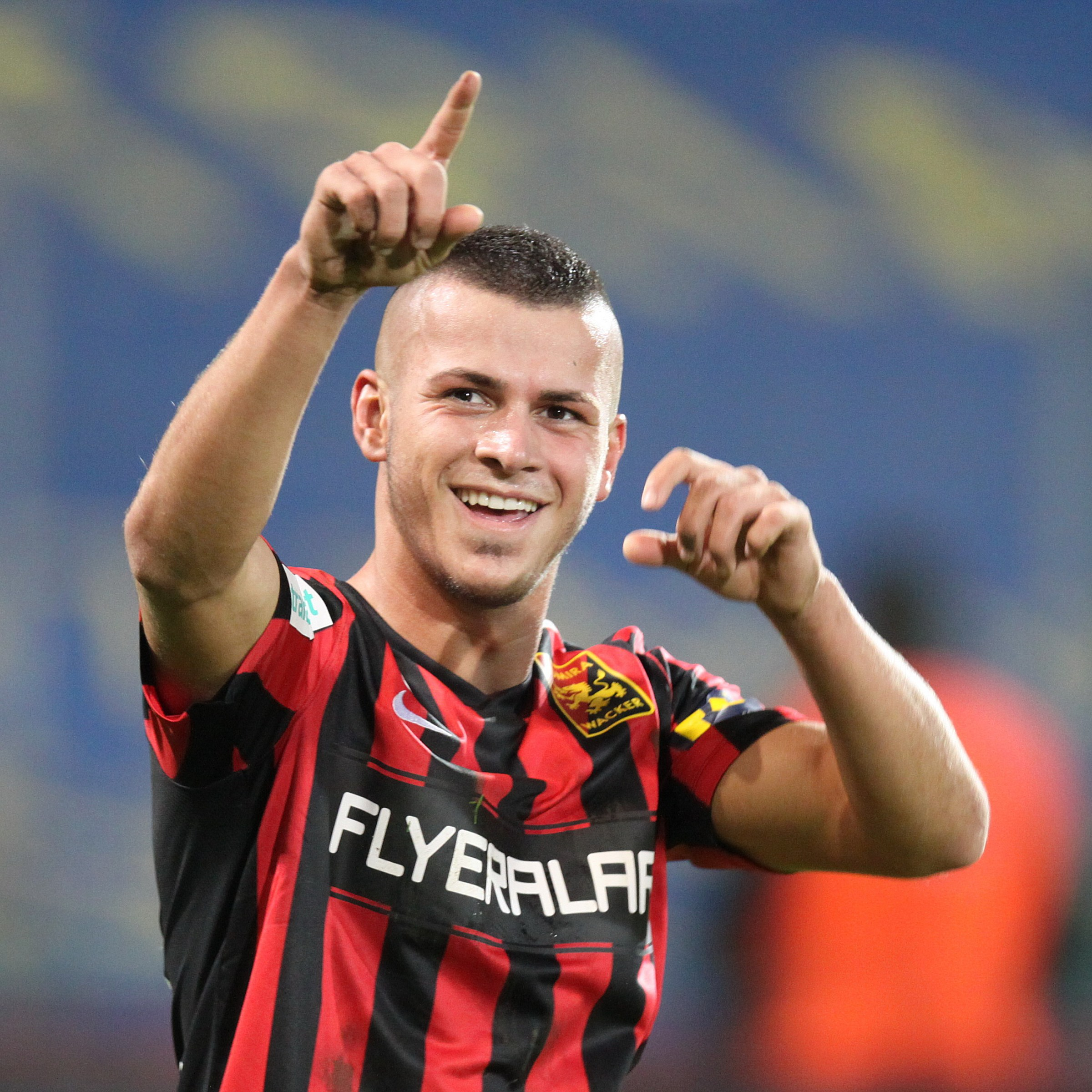 Match of the Austrian Football Bundesliga – FC Admira Wacker Mödling (red shirts) vs. SK Rapid Wien (white shirts) 2-1 (0-1) on 2015-12-02 in Bundesstadion Sudstadt – The photo shows Srđan Spiridonović.